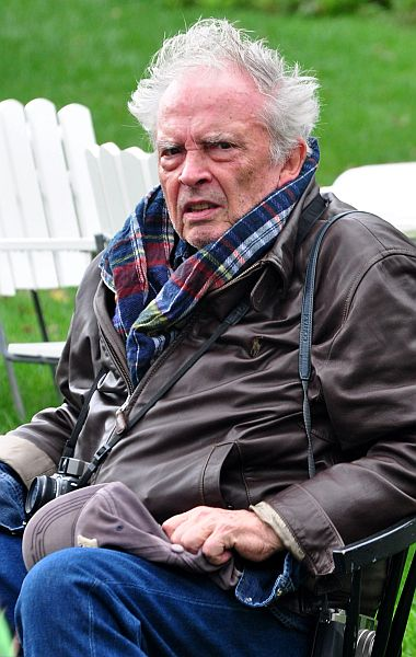 Photographer David Bailey attends press interviews on October 14, 2011 at the Maidstone Hotel in East Hampton, New York. (Photo © Nick Stepowyj)